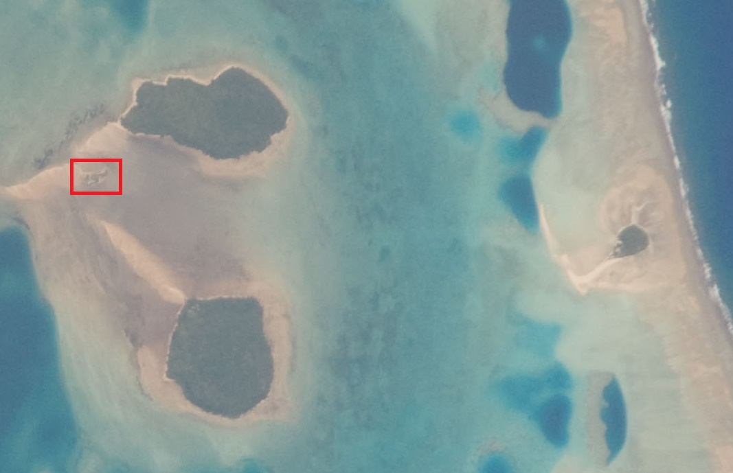 Wallis island lagoon seen from space. From the upper left to right : Luaniva, Fugalei (left), Tekaviki (small island in red, south of Luaniva). Nukuhione is on the far right.